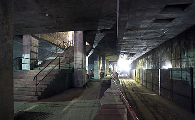 Depicted place: Phoolbagan metro station